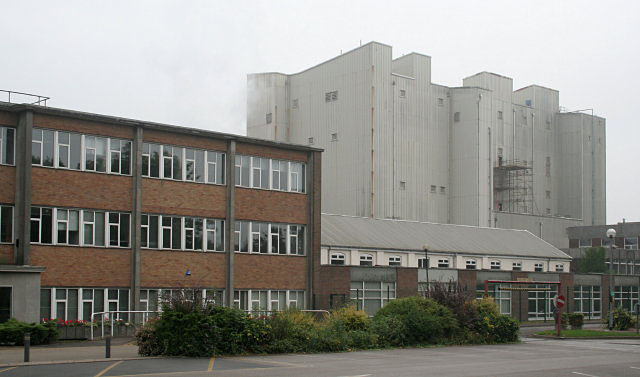 British Celanese, later Courtaulds Acetate factory, Spondon, Derbyshire